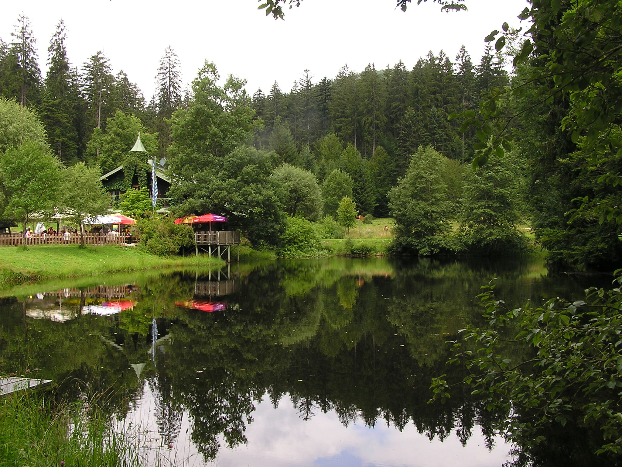 The “Schwellhausl”, a former timber rafting logging dam near Zwiesel.